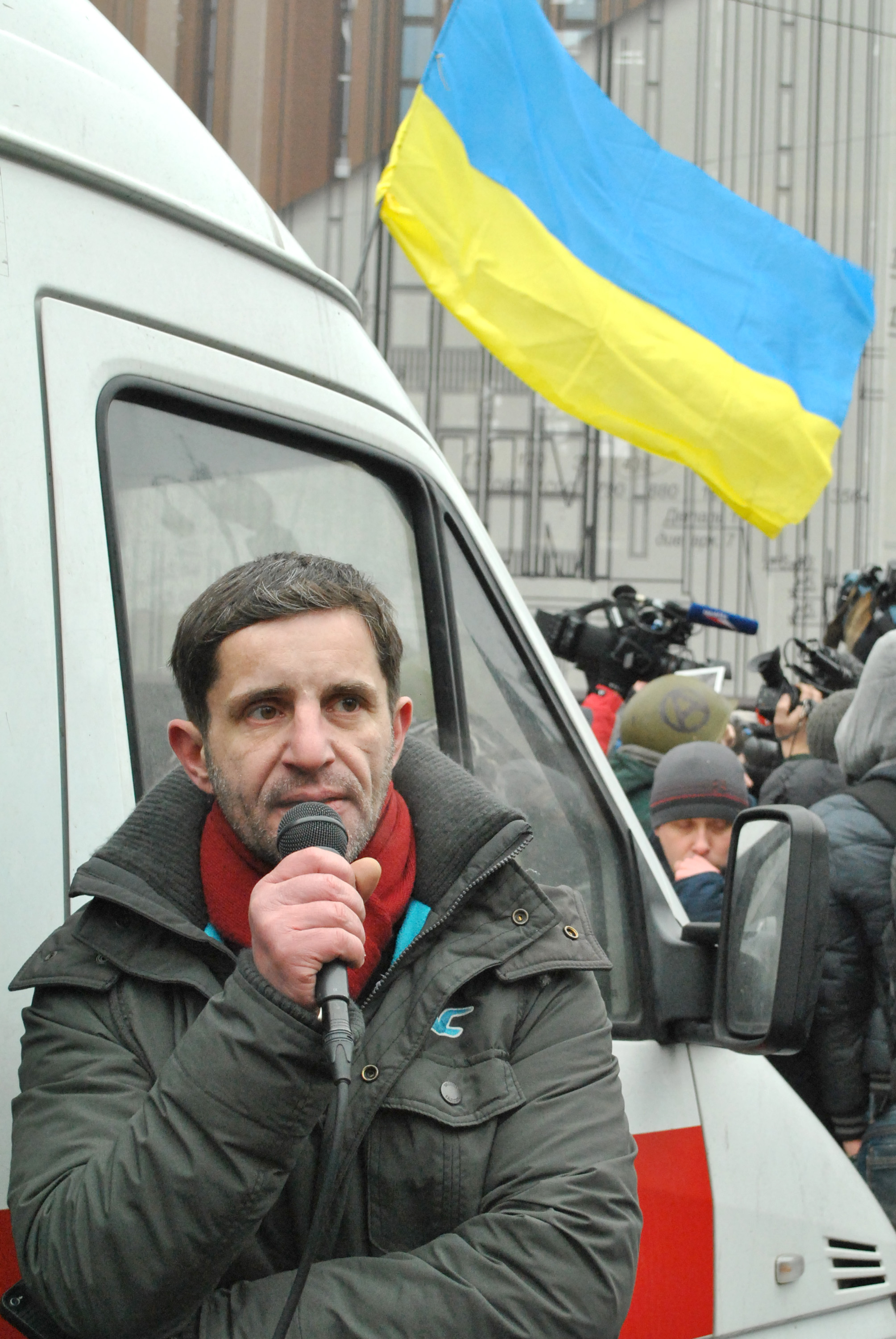 Ukrainian civil activist Zoryan Shkiryak.